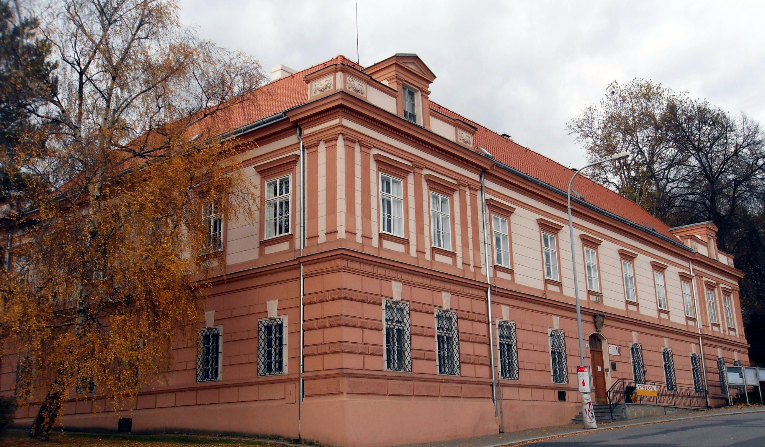 Chateau (now town hall of Řečkovice), Brno, Czech Republic